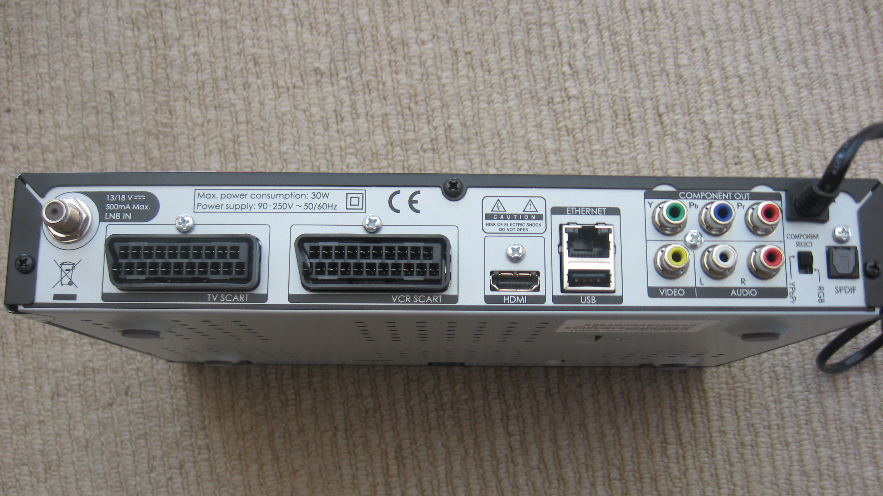 Reverse of a HD Digital Satellite receiver by Humax. For Freesat. Model number "FOXSAT HD".